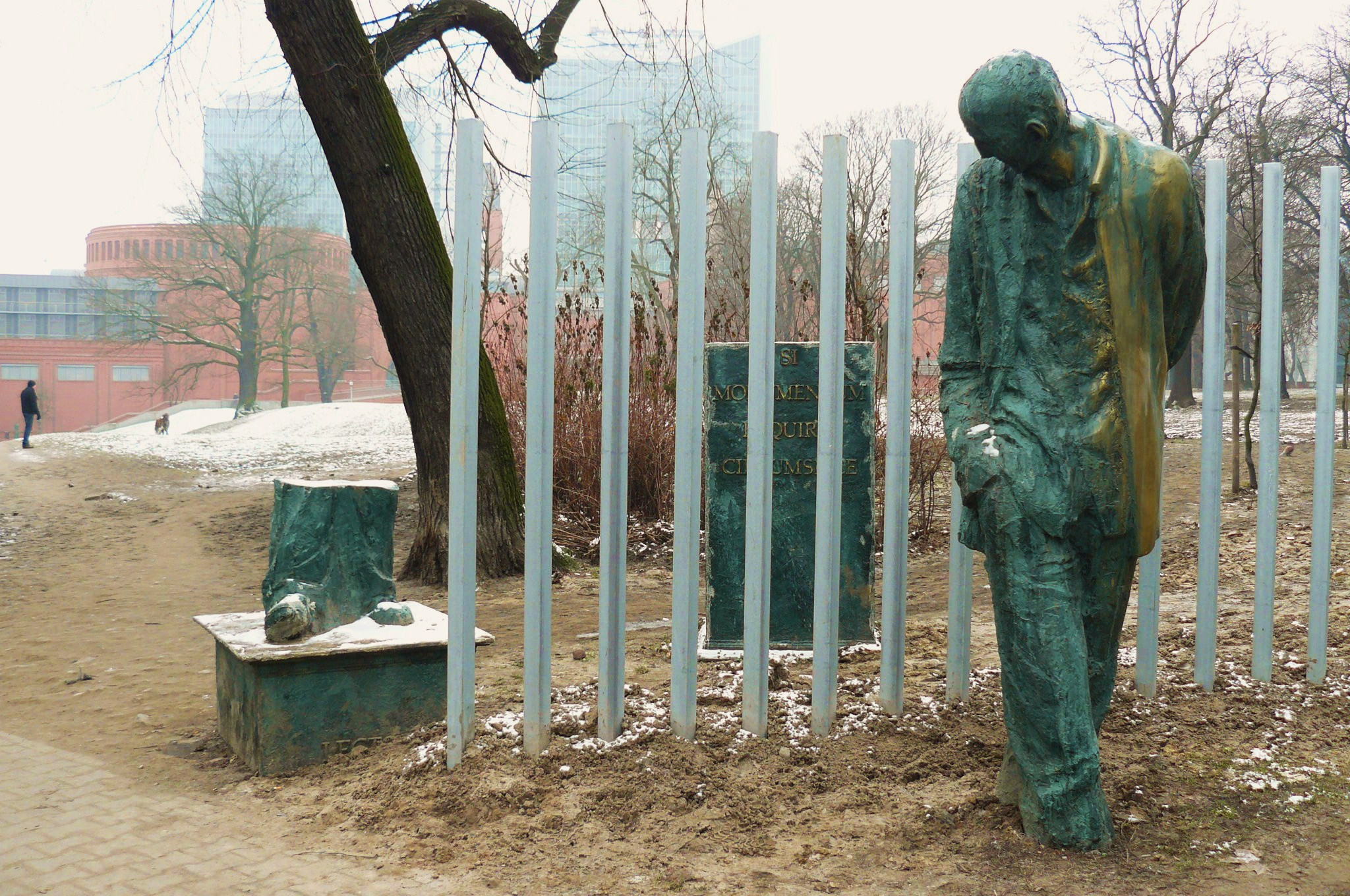 Not-Monument, Poznan. Norbert Sarnecki.